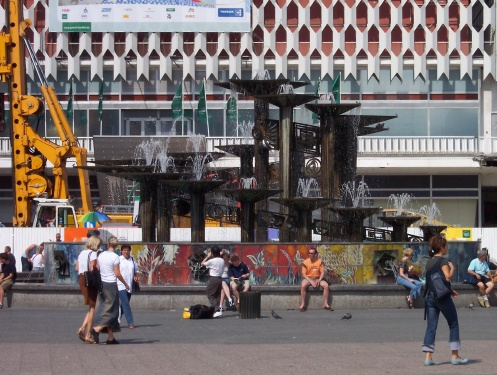 The "Fountain of Friendship between Peoples" (Brunnen der Völkerfreundschaft) at the Alexanderplatz, Berlin